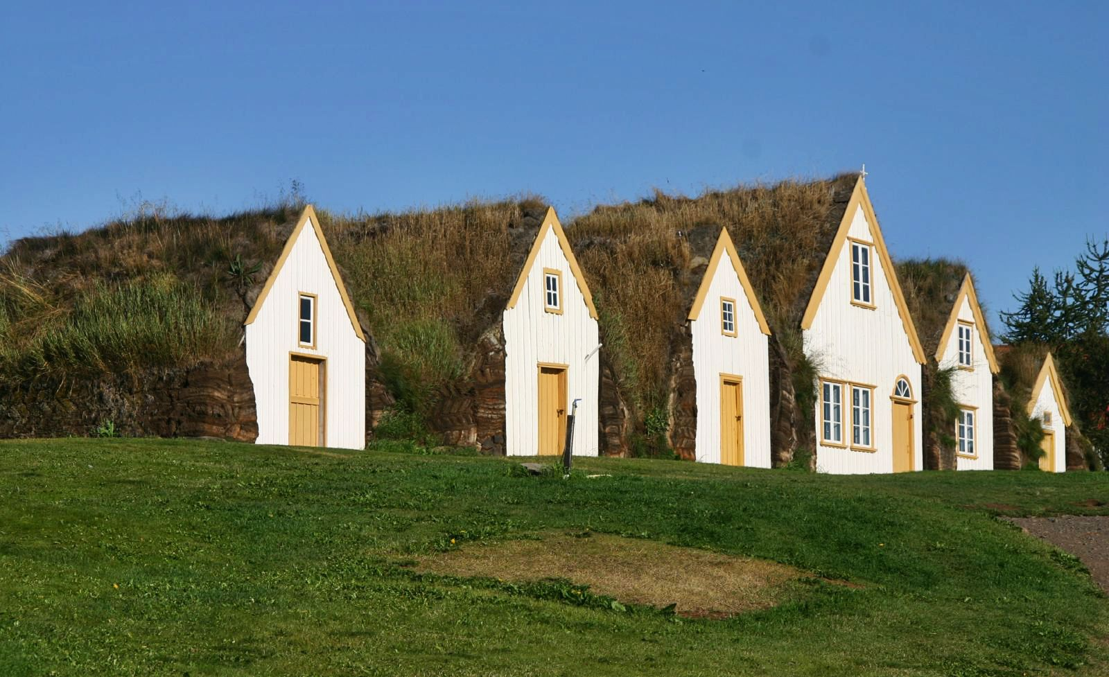 Skagafjörður Heritage Museum, Glaubær, Iceland